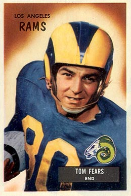 National Football League player Tom Fears depicted on a 1955 Bowman Gum football trading card with the Los Angeles Rams